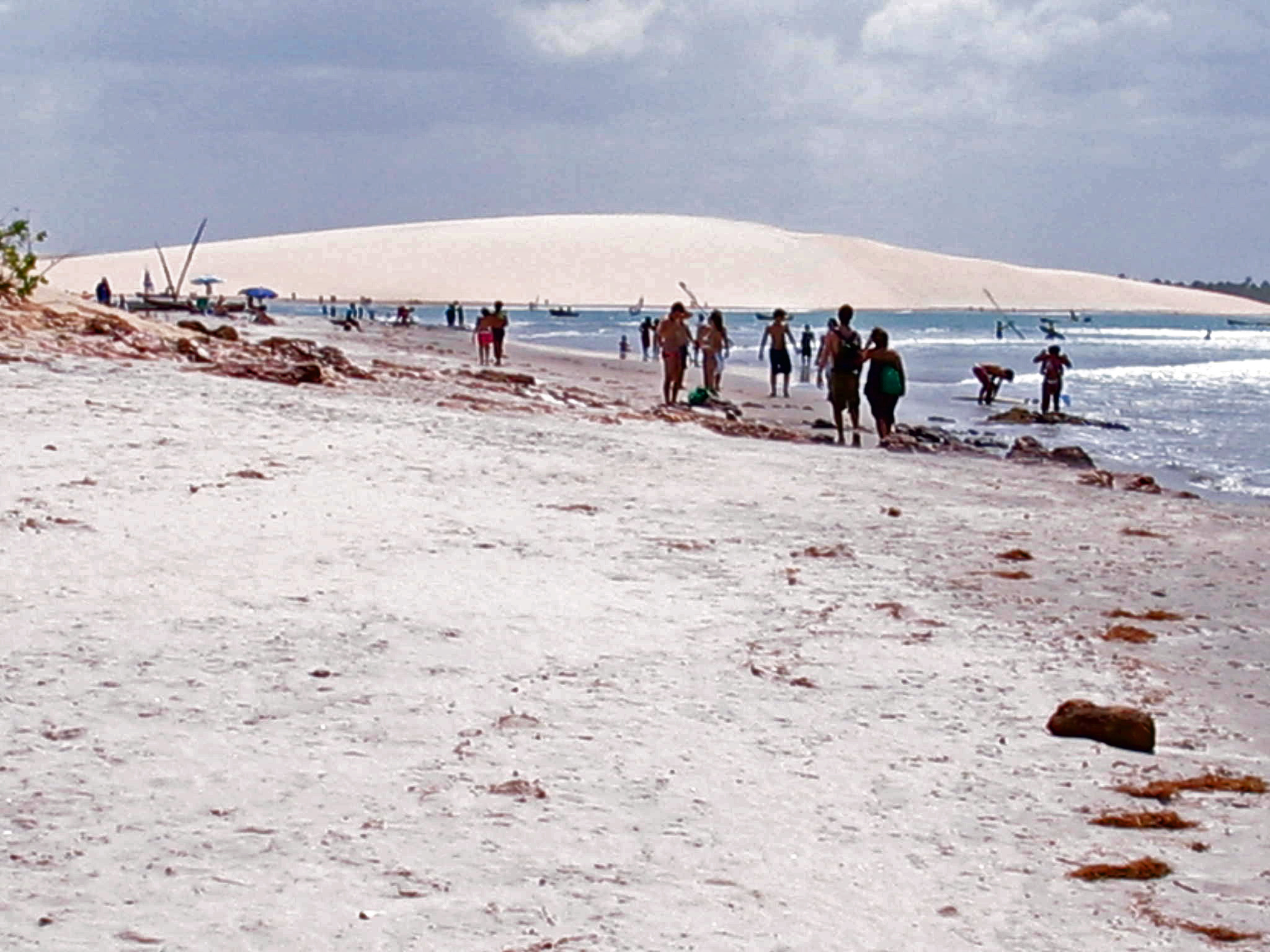 Jericoacoara beach, Jericoacoara, Brazil. Photo taken by Claudia Rayanna Silva Mendes in 2004.